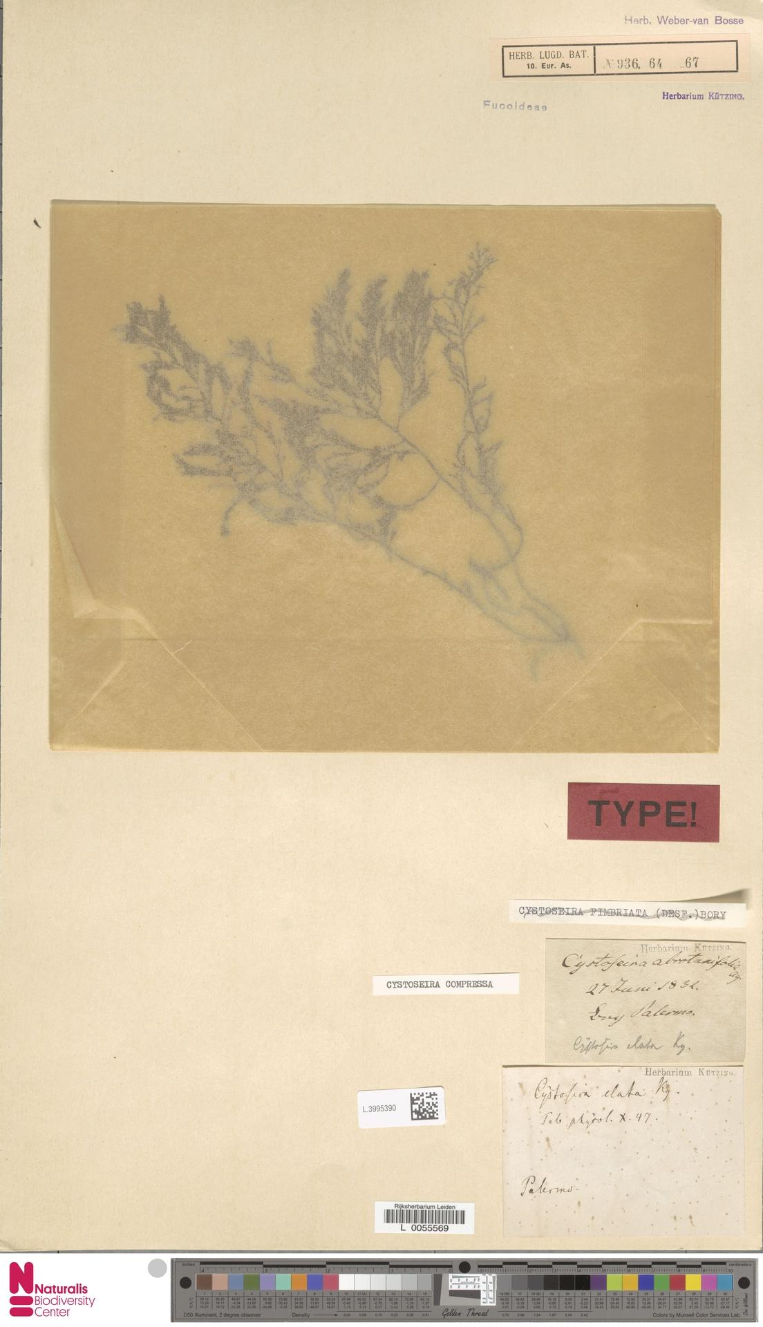 Cystoseira compressa (Esper) Gerloff and Nizam. (type of) - Cystoseira compressa (Esper) Gerloff and Nizam. (species)